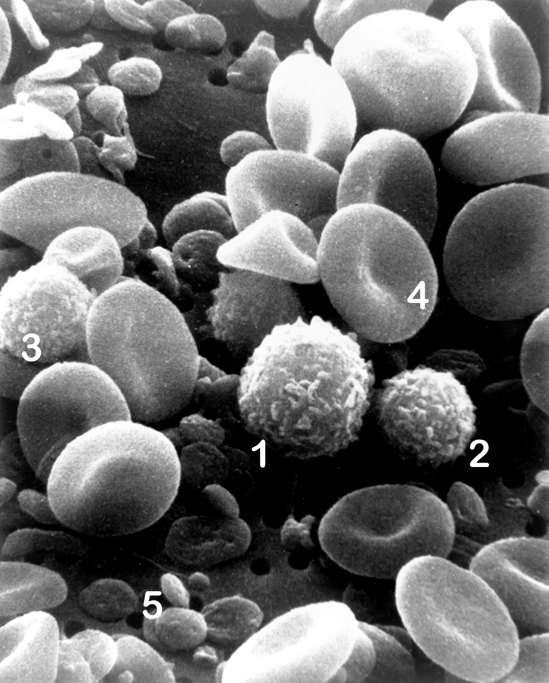 This is a scanning electron microscope image from normal circulating human blood. One can see red blood cells, several white blood cells including lymphocytes, a monocyte, a neutrophil, and many small disc-shaped platelets.Labels : (1) Monocyte, (2) Lymphocyte, (3) Neutrophil (4) Red Blood Cell (RBC), (5) A few platelets (seen as small disc-shaped pellets) Type: Black & White Print